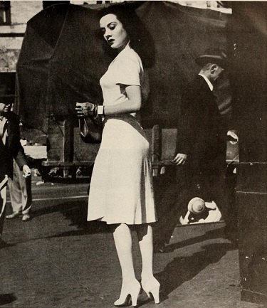 Audrey Totter nel film The Postman Always Rings Twice